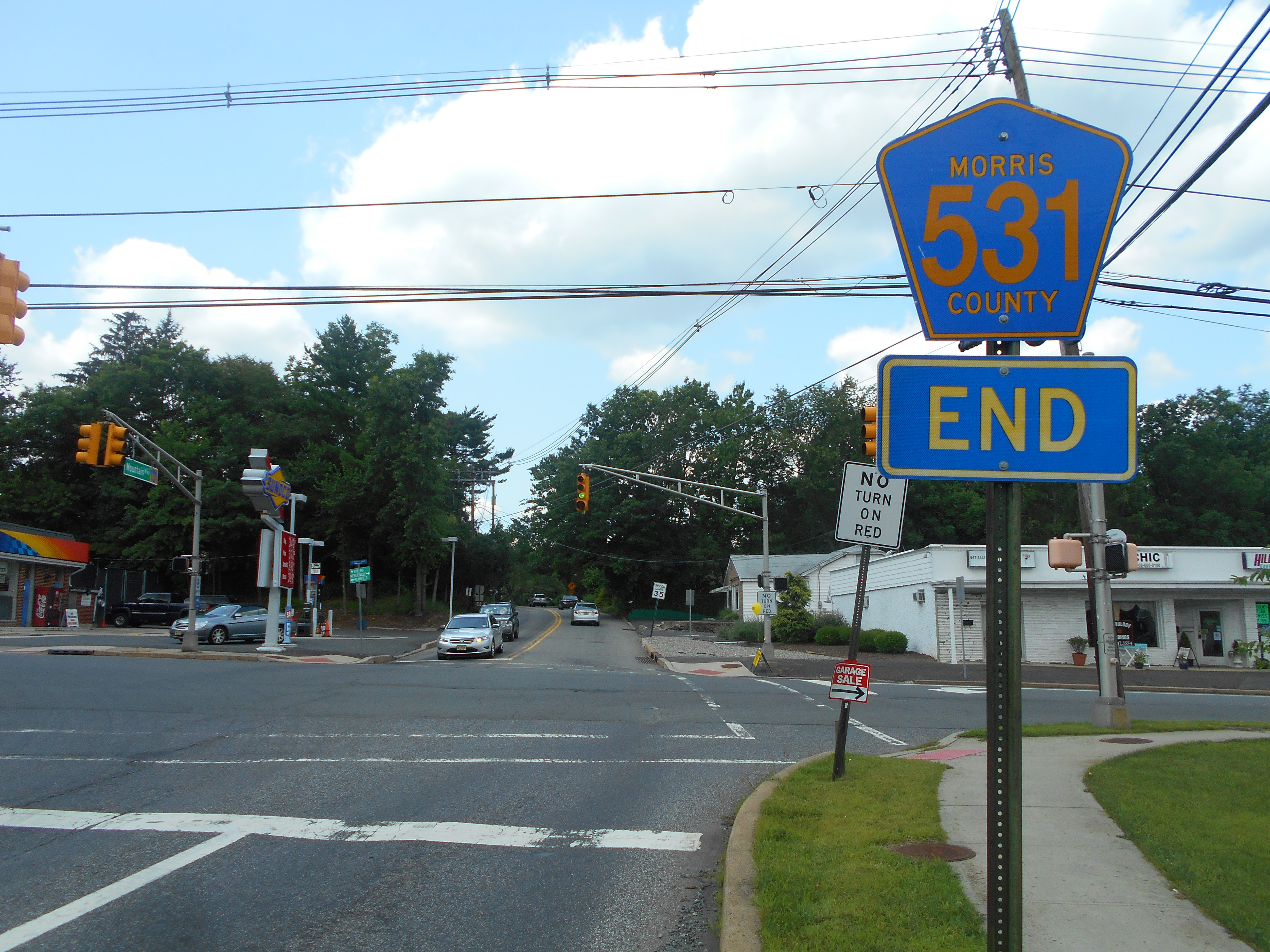 The northern terminus of County Route 531 in Long Hill Township, New Jersey.